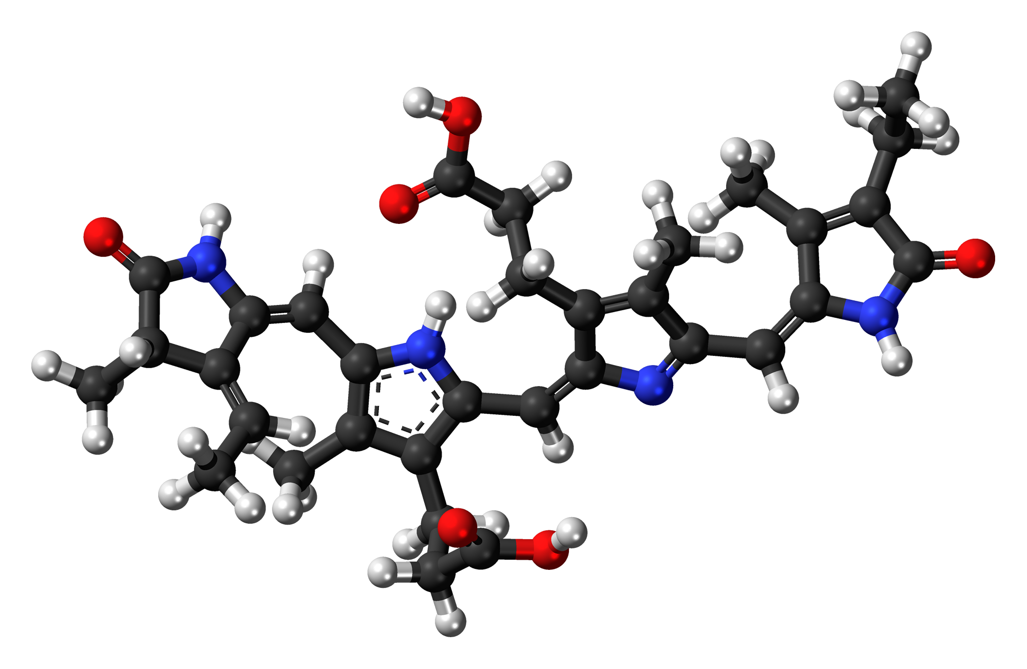 Ball-and-stick model of the phycocyanobilin molecule, a photosynthetic pigment used by plants alongside chlorophyll. Colour code: Carbon, C: black Hydrogen, H: white Oxygen, O: red Nitrogen, N: blue